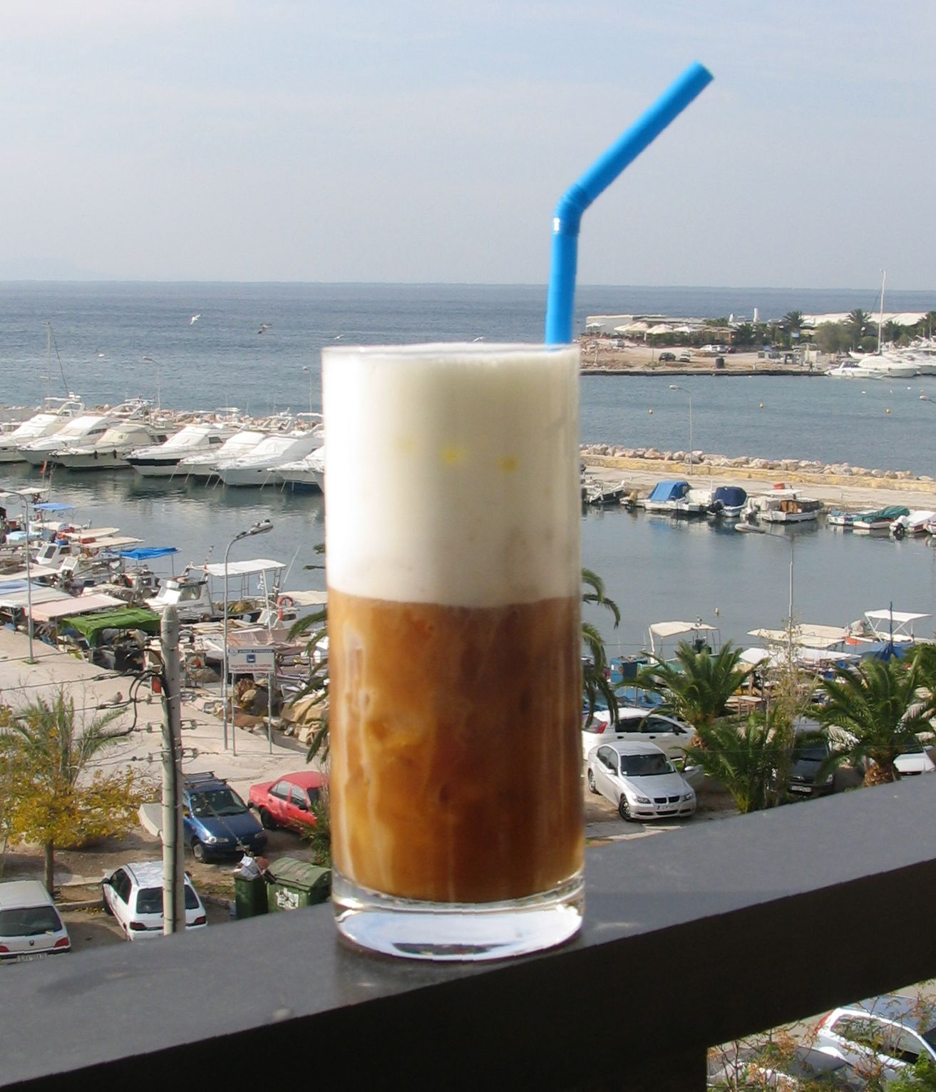 Content and capuccino freddo created by the uploader! :-)